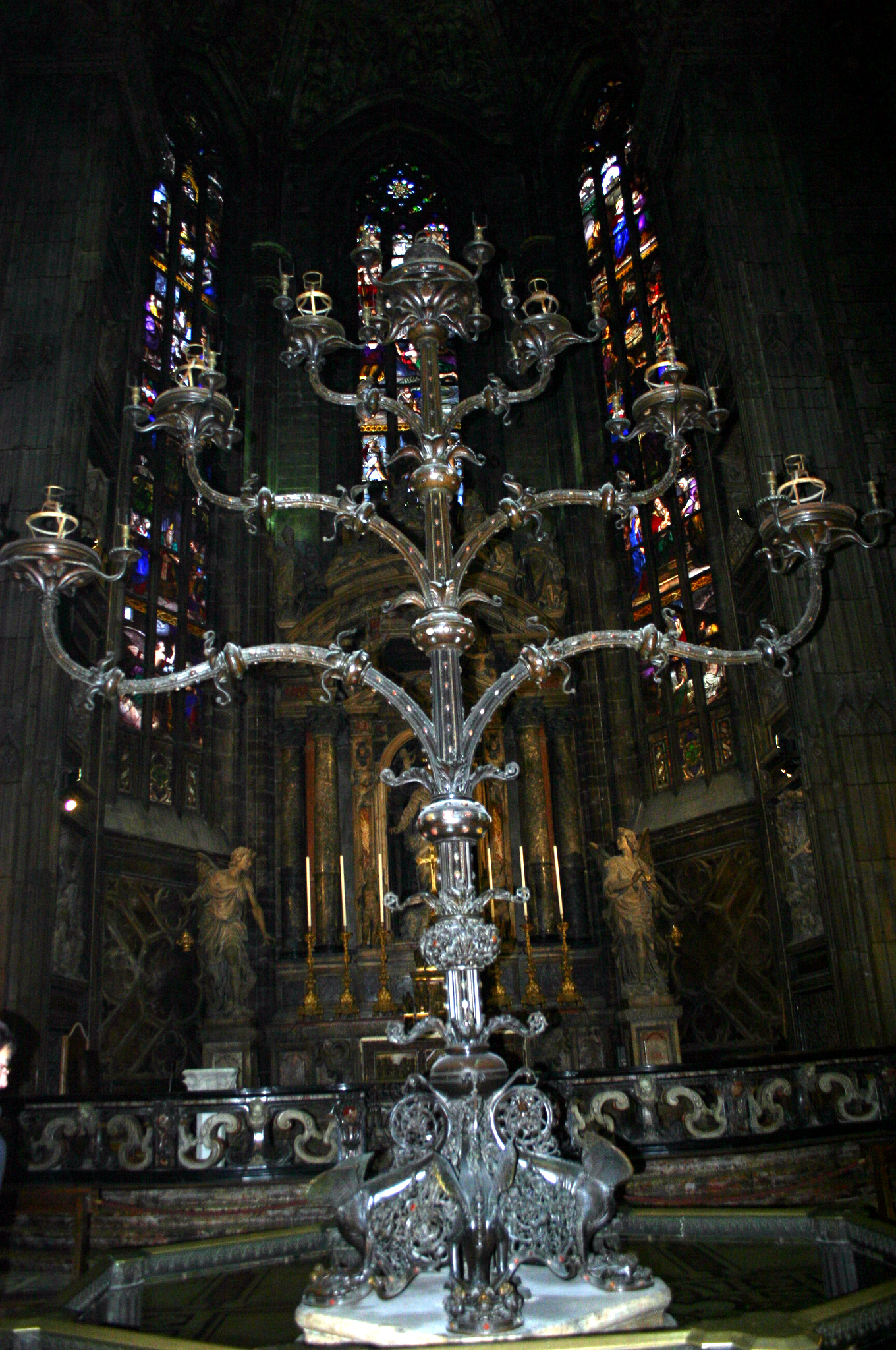 Cathedral in Milan, Italy. The gothic-style Trivulzio chandler, an early 13th century work of art by an anonymous anglo-norman master. It is shaped as a menorah, as a symbol of the passage from the Old Covenant (with the Jews) to the New Covenant (with the Christian Church). Picture by Giovanni Dall'Orto, March 3 2007.